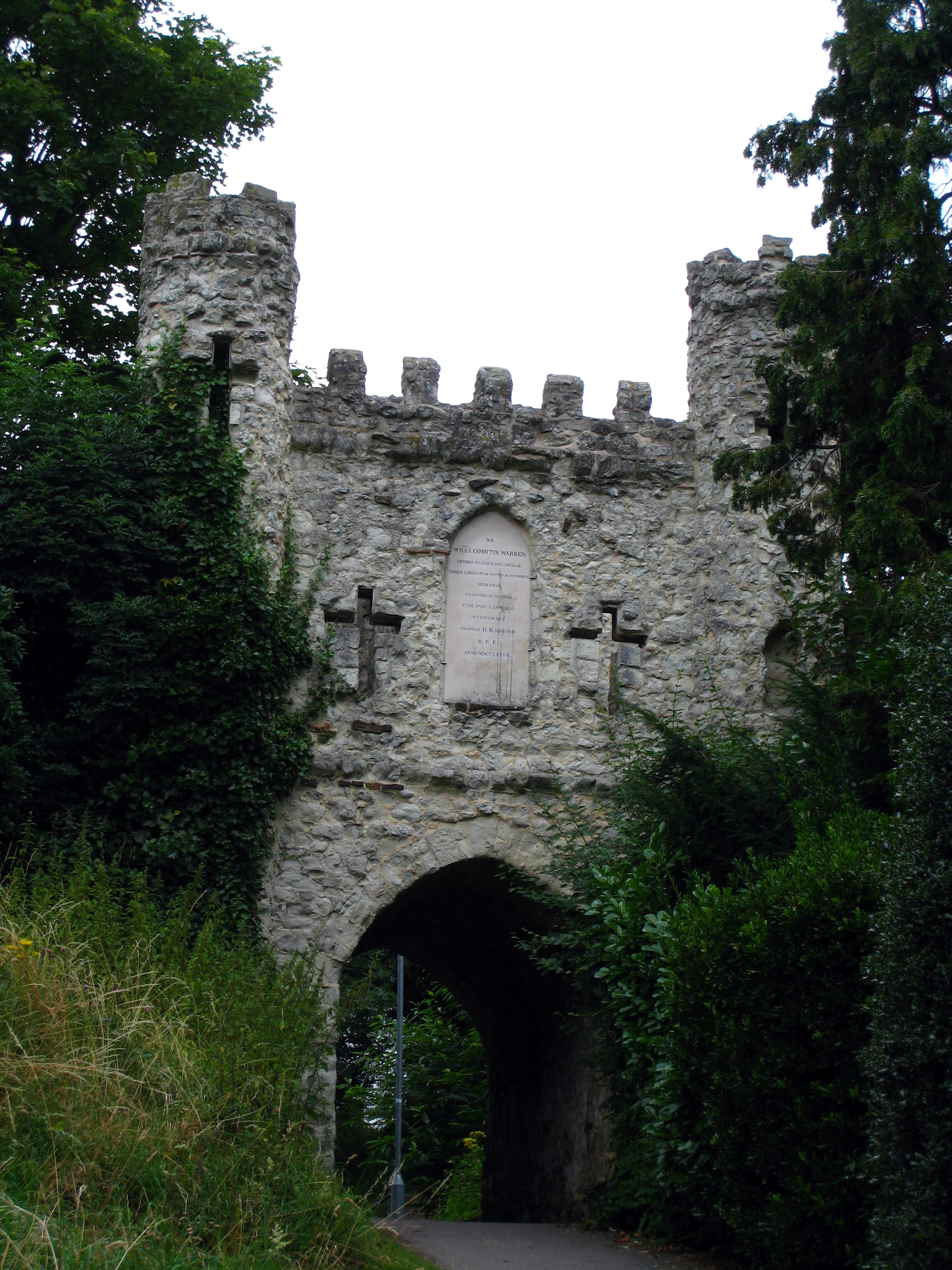 Reigate castle side view